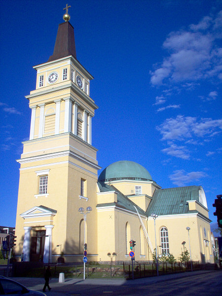 Oulu Cathedral in Oulu, Finland, seen from west.